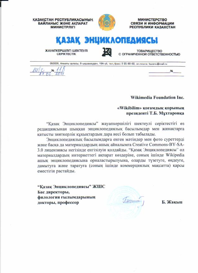 Letter of Kazakh Encyclopedia to Wikimedia Foundation Inc. with permission to upload all content of Kazakh National Encyclopedia (text and fotoes) to Wikipedia under CC-BY-SA 3.0 License.